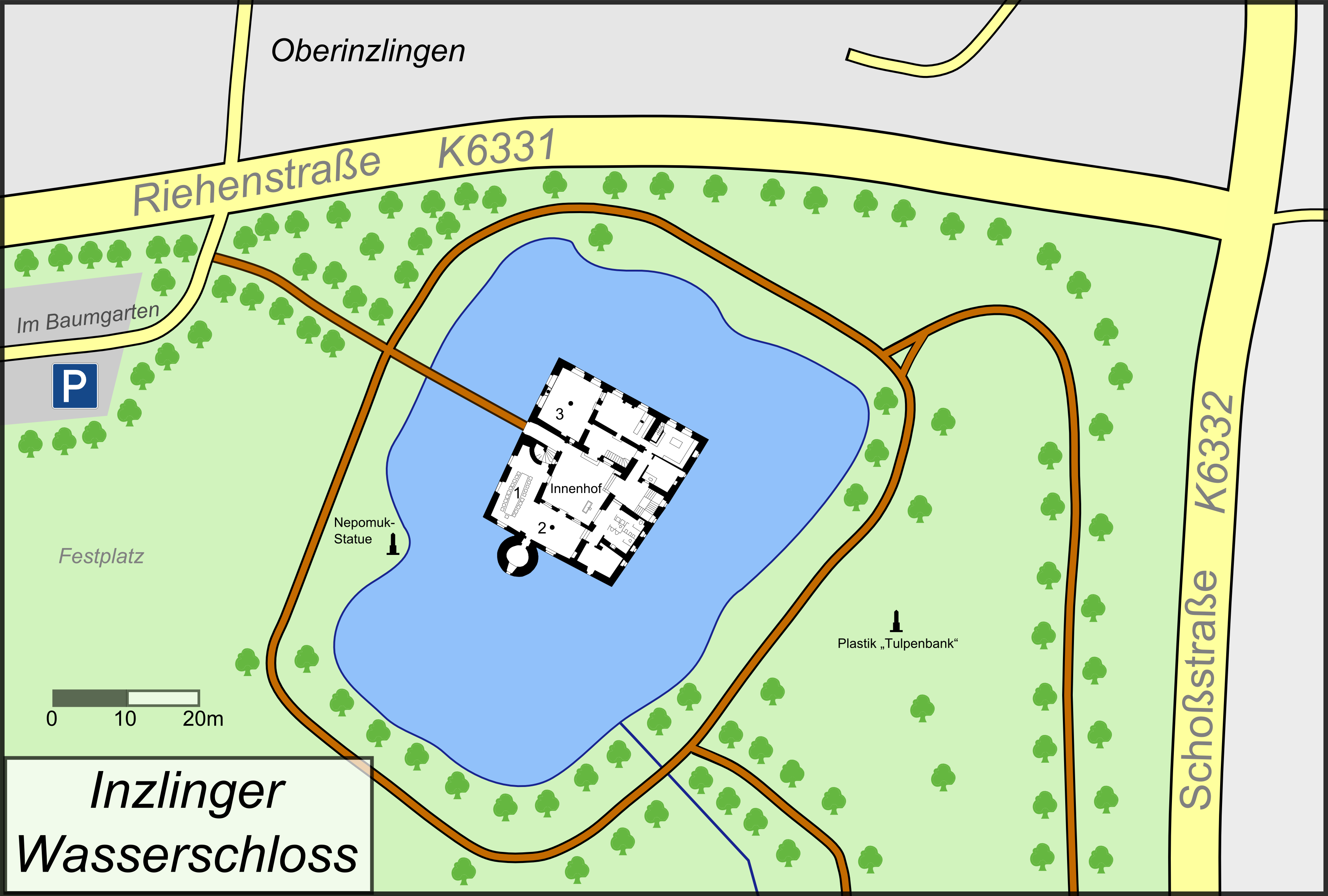 Map of surrounding and ground plot (1st level) of Inzlingen Castle